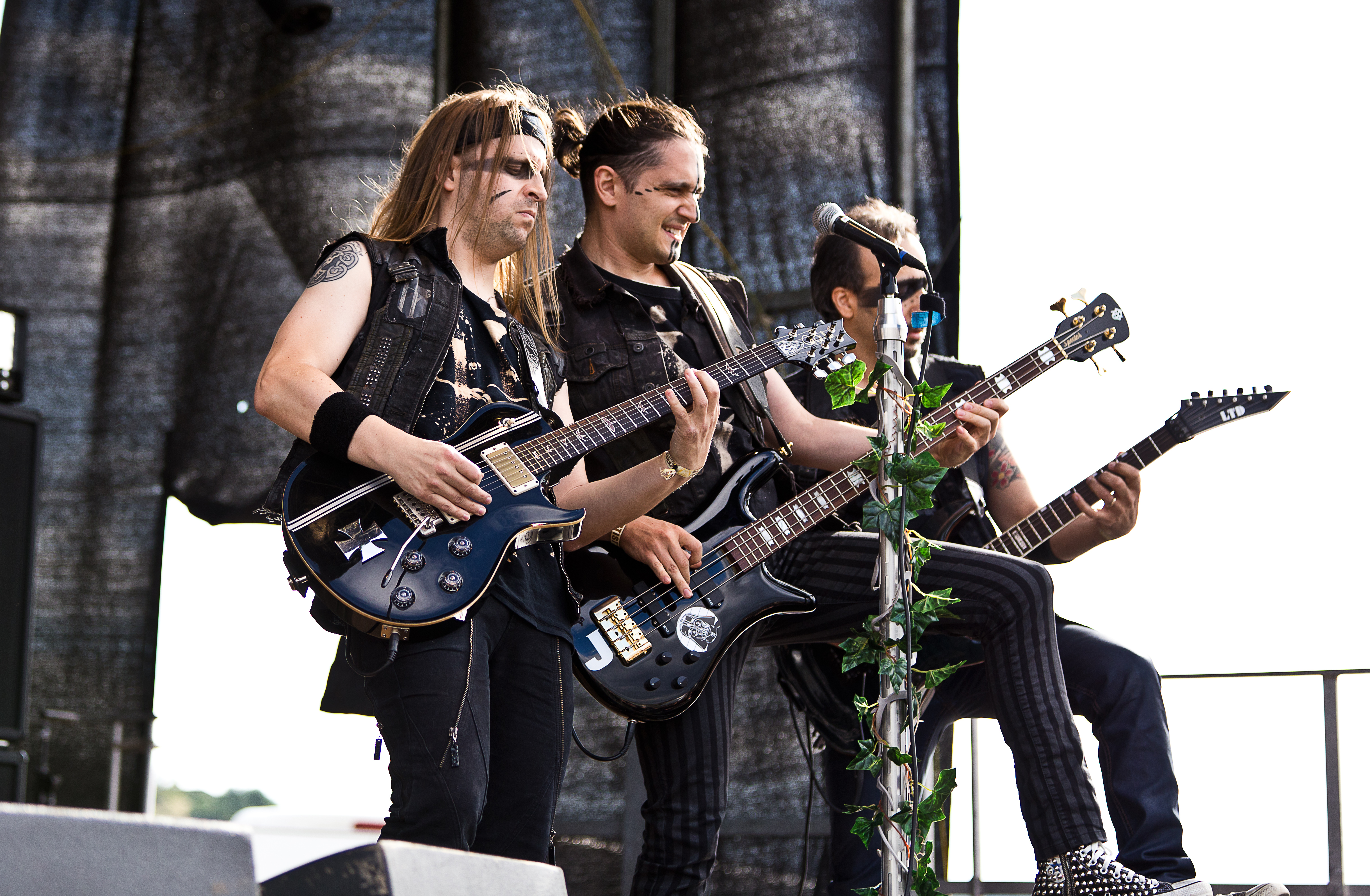 The Italian power metal band Elvenking at the Rockharz Open Air 2015 in Ballenstedt/Germany.